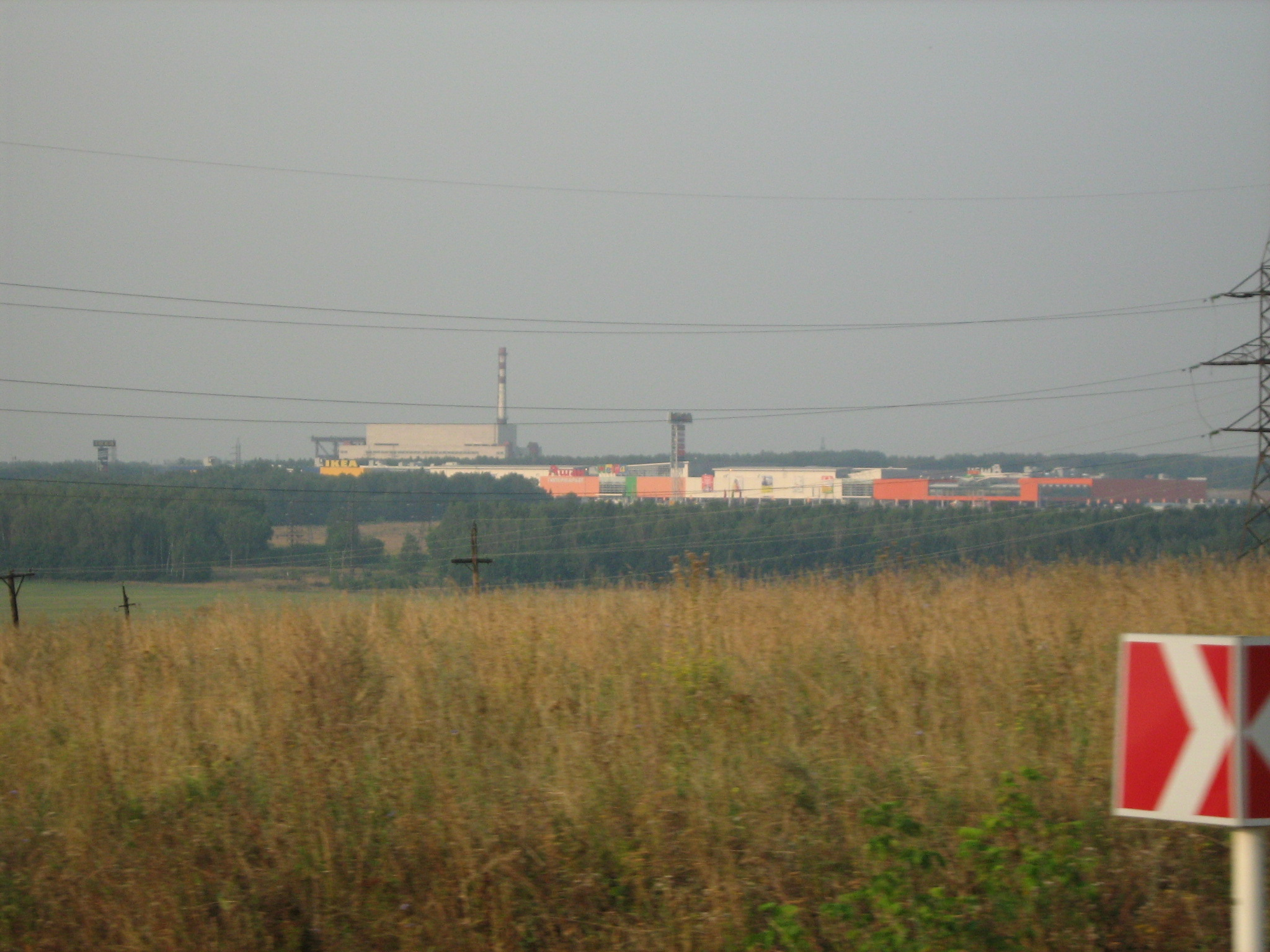 The north-western part of Nizhny Novgorod's suburban Kstovsky District as seen from the Kazan Highway near Afoniono. One can see two of the district's large developments located near the village of Fedyakovo: the abandoned hulk of the 1980s-vintage Gorky Nuclear District Heating Plant (GAST),, and, just to the right of it, the MEGA mall anchored by an IKEA store.